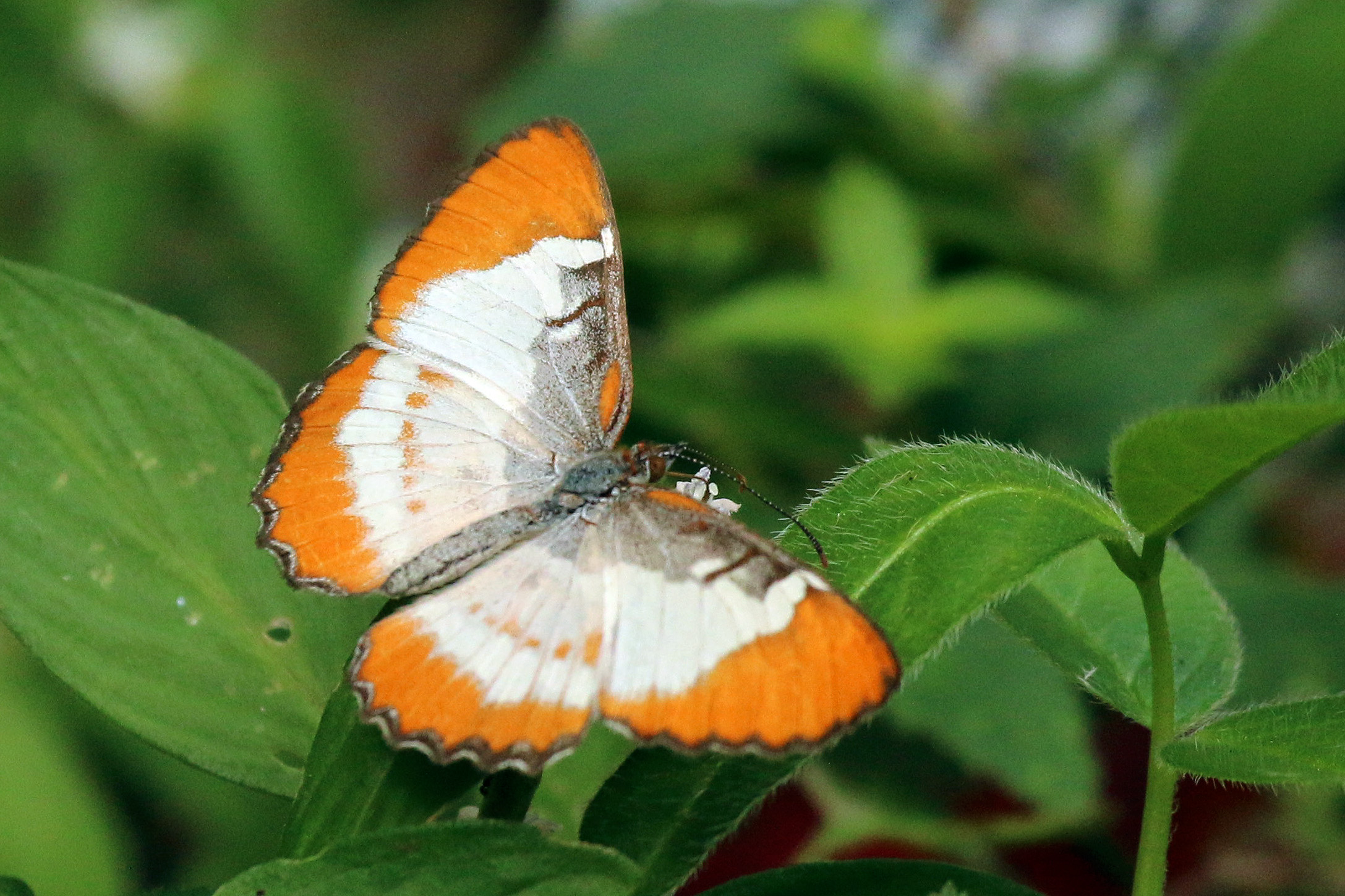 Jamaican mestra butterfly (Mestra dorcas) female in Jamaica